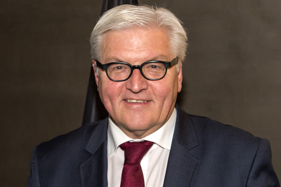 Frank-Walter Steinmeier